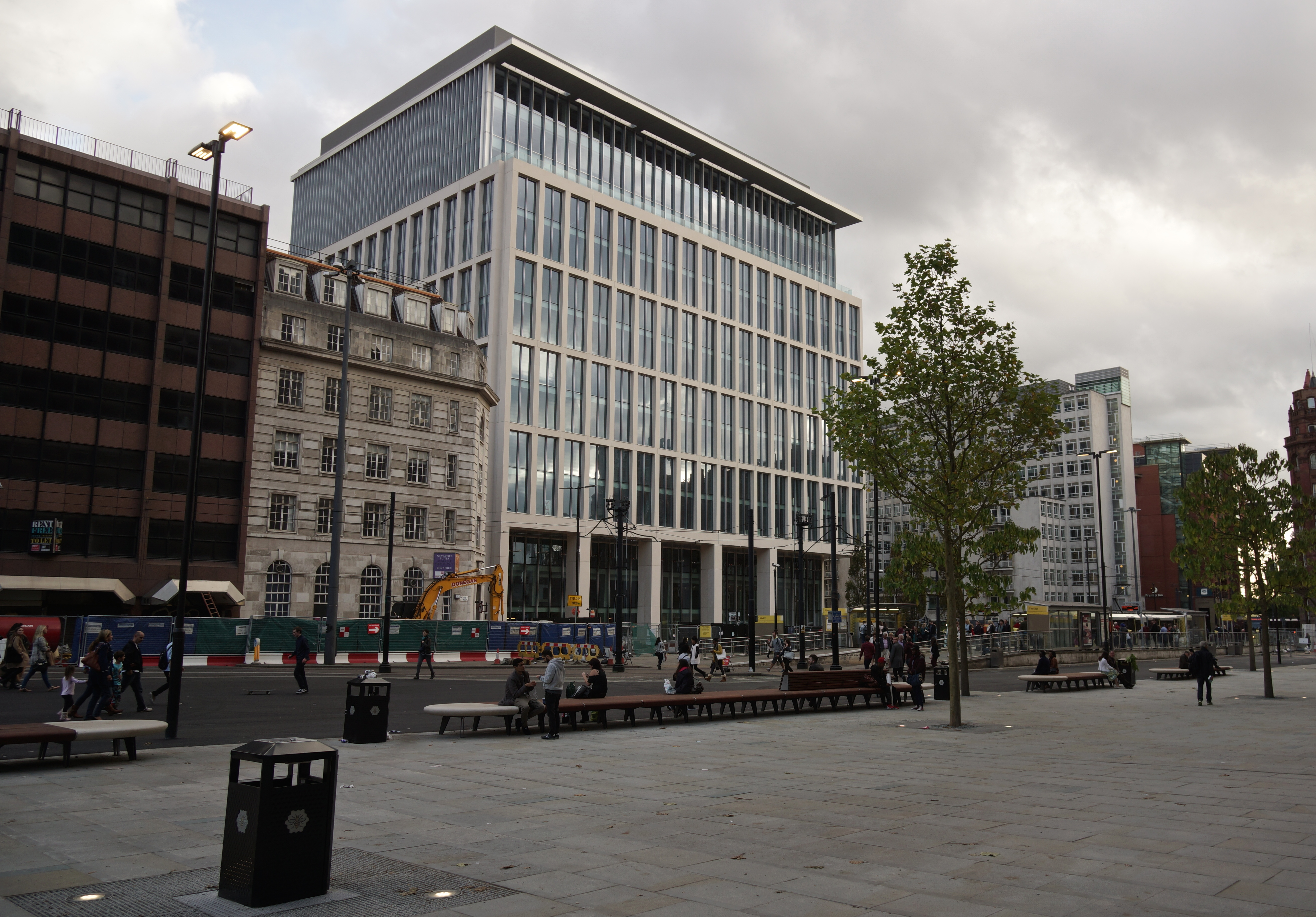 One St Peter's Square office building from the Cenotaph